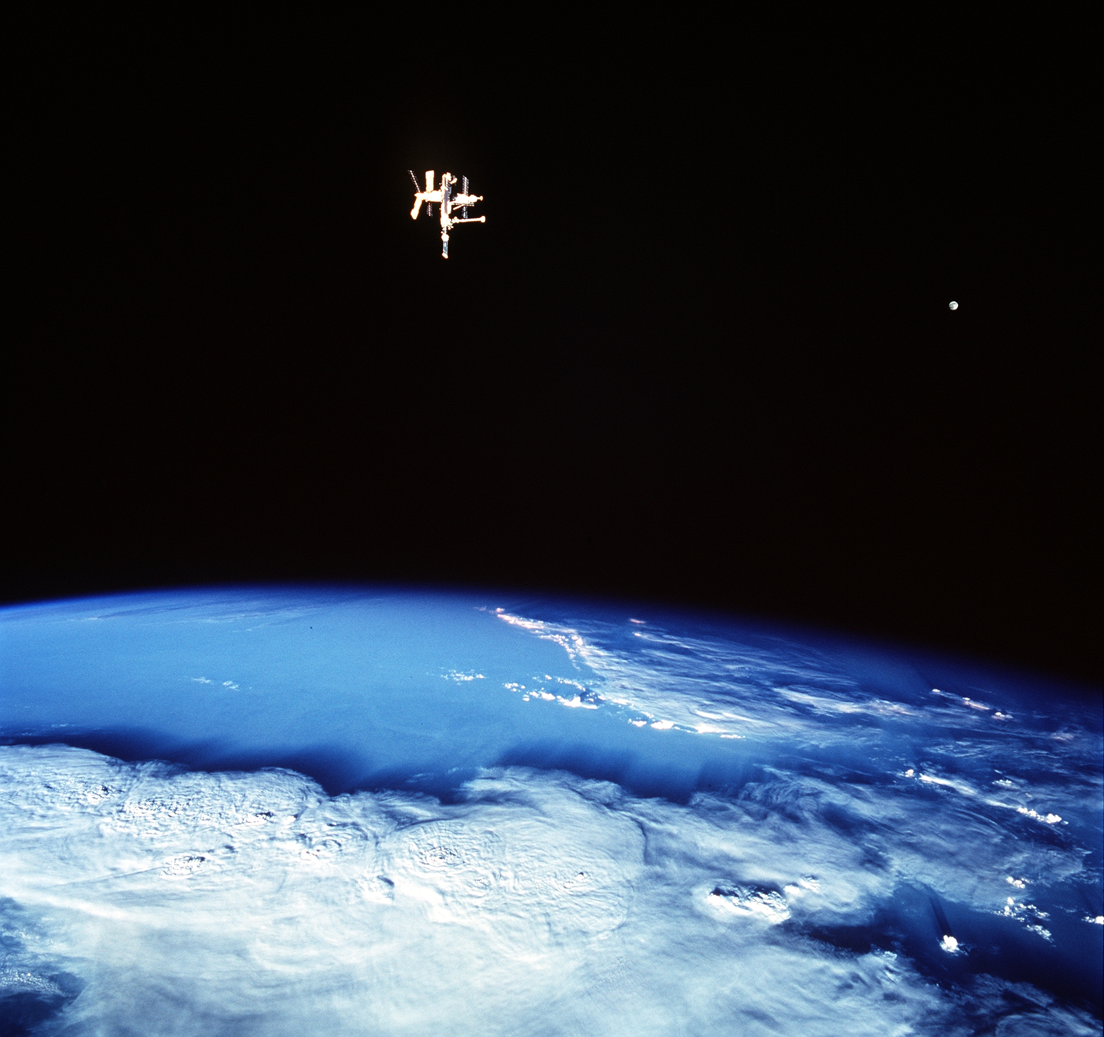 Mir and the Moon, two satellites of the Earth :While orbiting the planet during their June 1998 mission, the crew of the Space Shuttle Discovery photographed this view of two moons of Earth. Thick storm clouds are visible in the lovely blue planet's nurturing atmosphere and, what was then Earth's largest artificial moon, the spindly Russian Mir Space Station can be seen above the planet's limb. The bright spot to the right of Mir is Earth's very large natural satellite, The Moon. The Mir orbited planet Earth once every 90 minutes about 200 miles above the planet's surface or about 4,000 miles from Earth's center. The Moon orbits once every 28 days at a distance of about 250,000 miles from the center of the Earth.